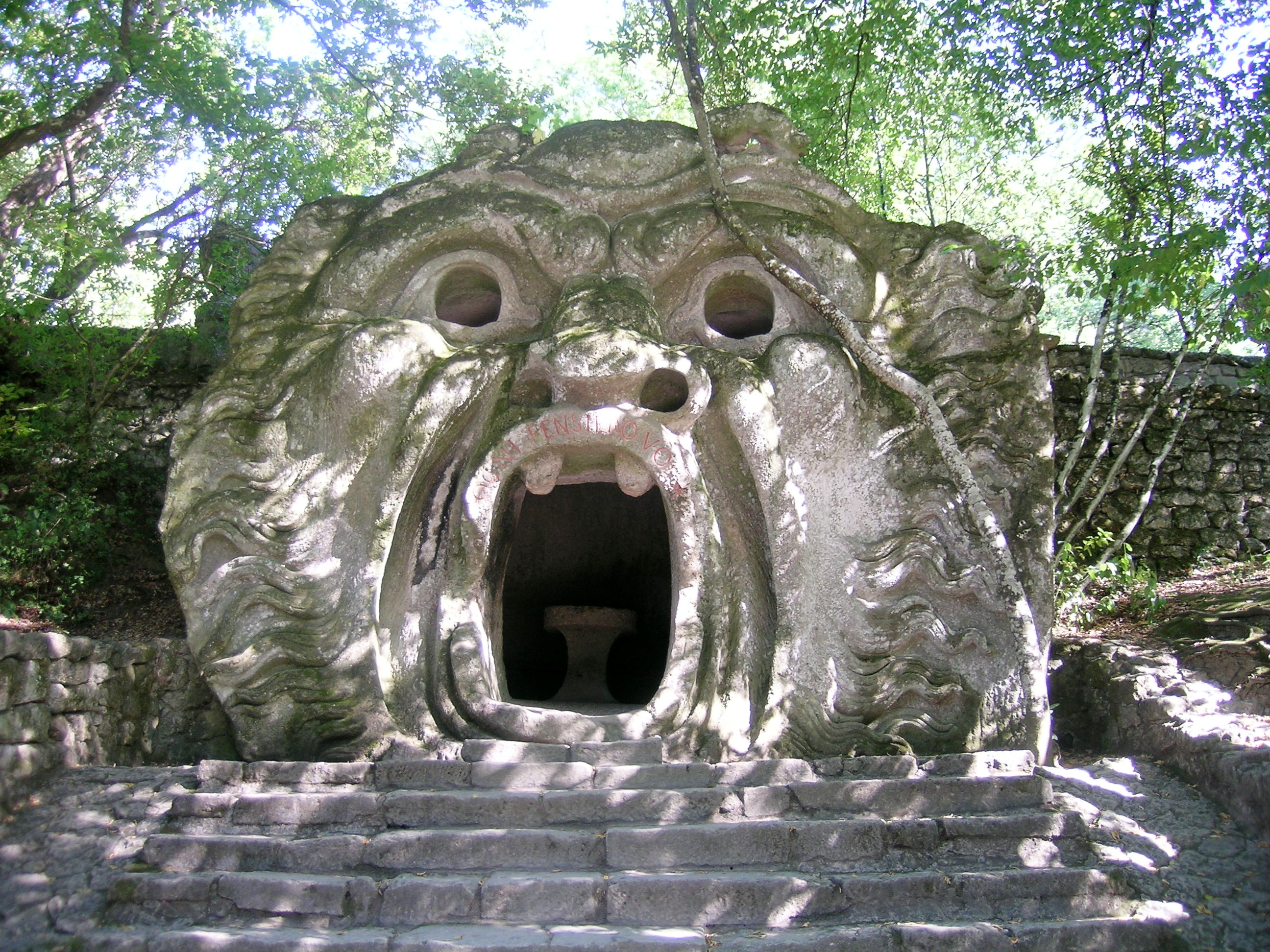 ogre in the park of monsters, close to Bomarzo (Italy)